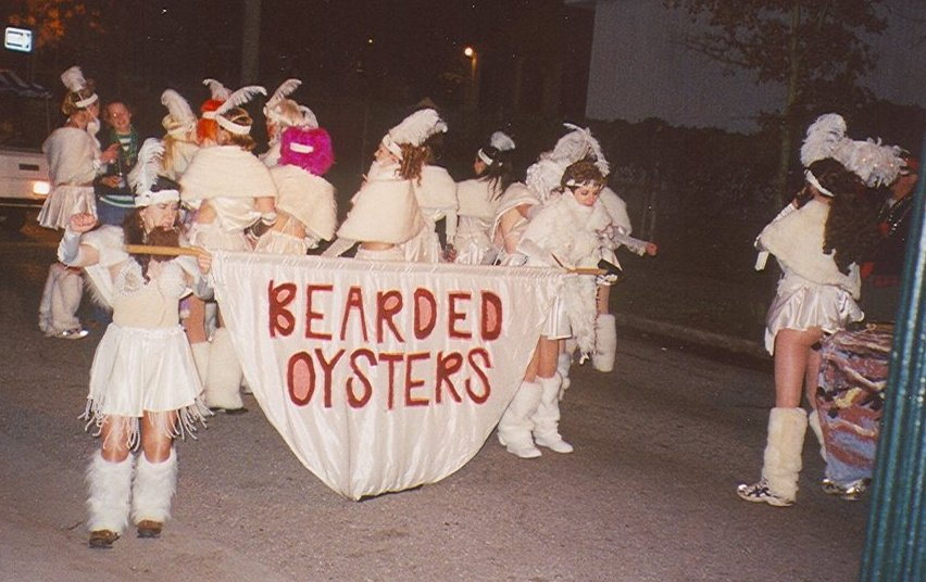 Costumed dance troop, "the Bearded Oysters", New Orleans Carnival "Krewe of OAK" parade. Photo by Infrogmation of New Orleans, 4 February, 2005.